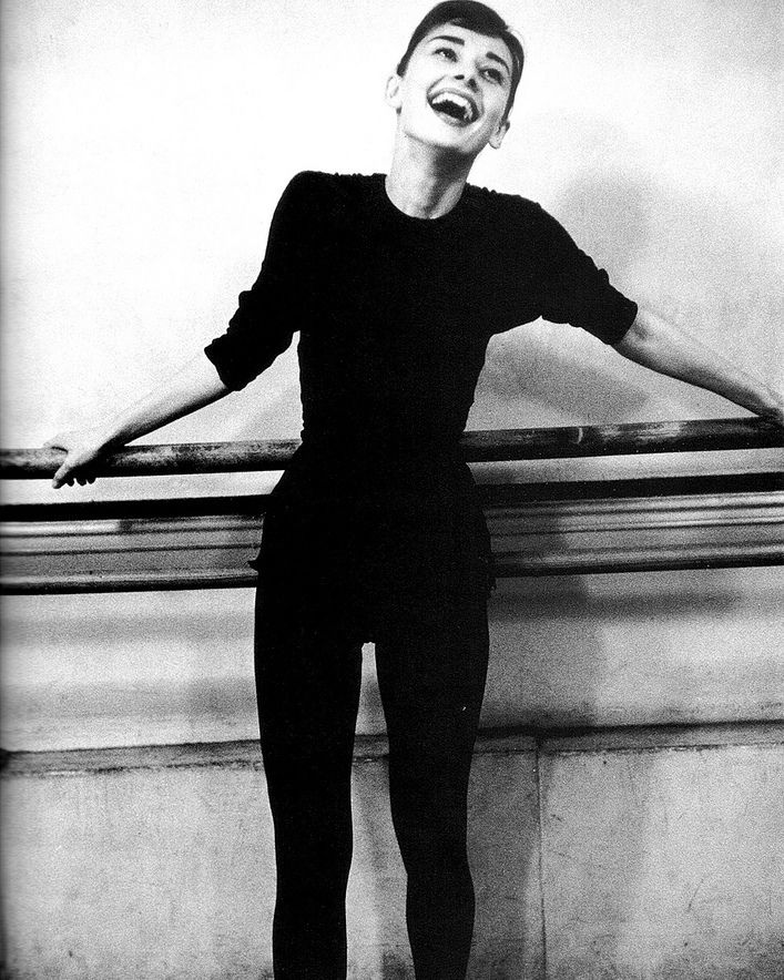 Publicity Photo of Audrey Hepburn (1956)